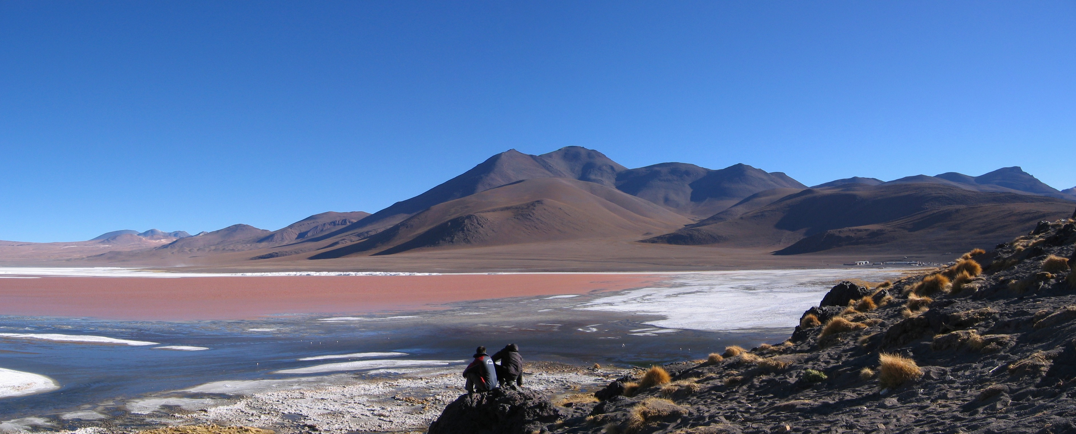 Laguna Colorada in May 2008, Bolivia.